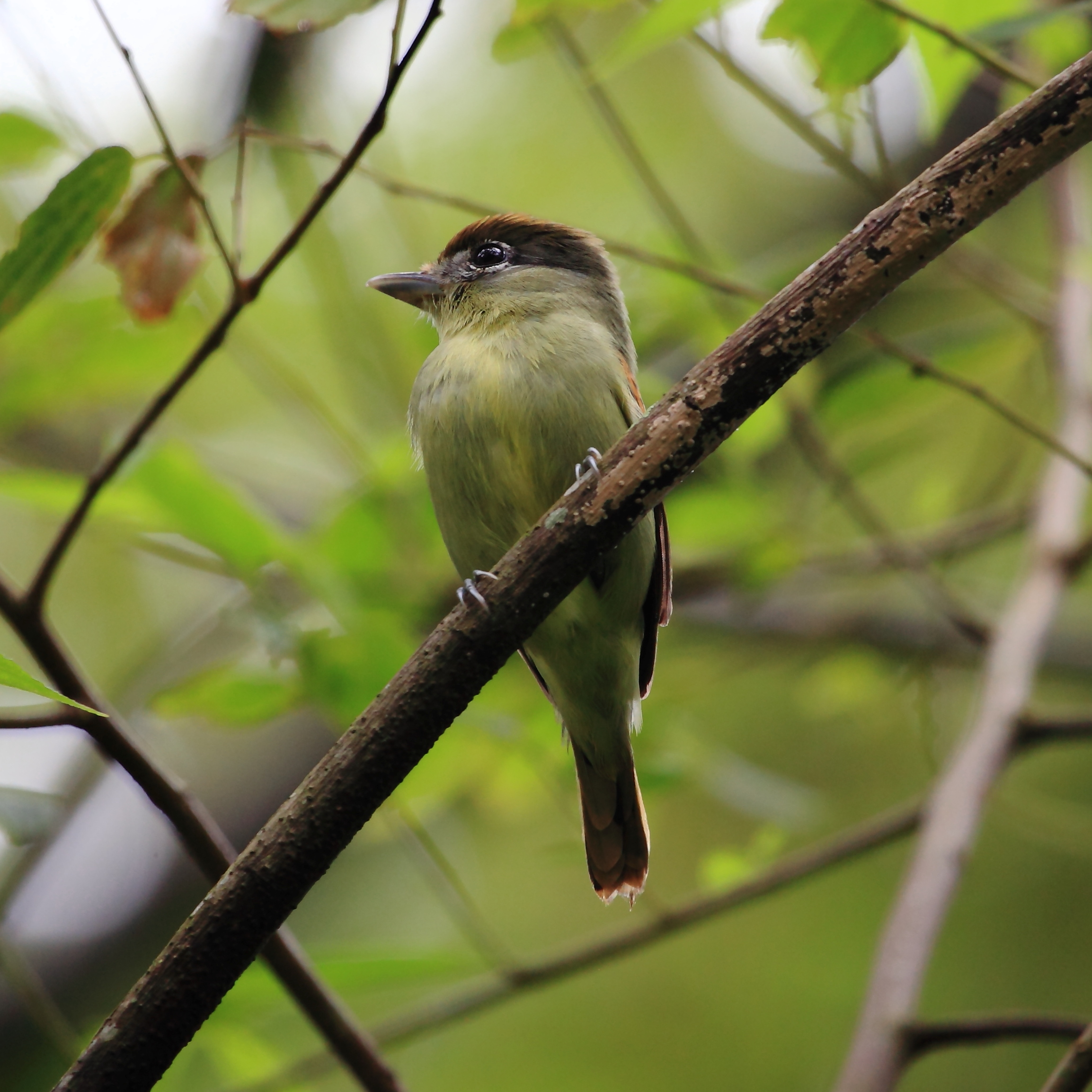 Black-capped Becard (female) at Restinga de Bertioga state park - SP - Brazil